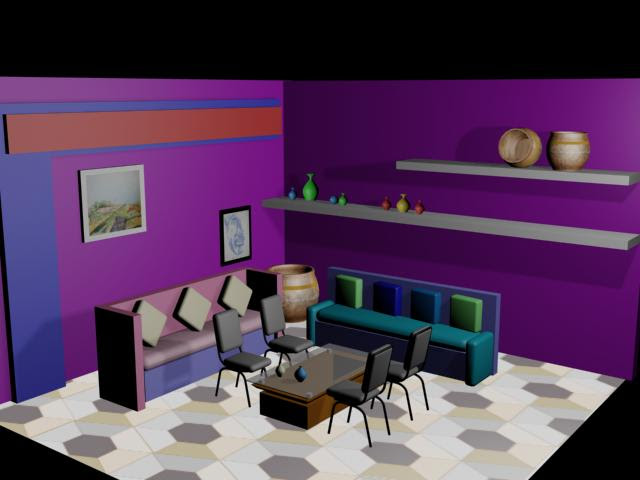 Digital art